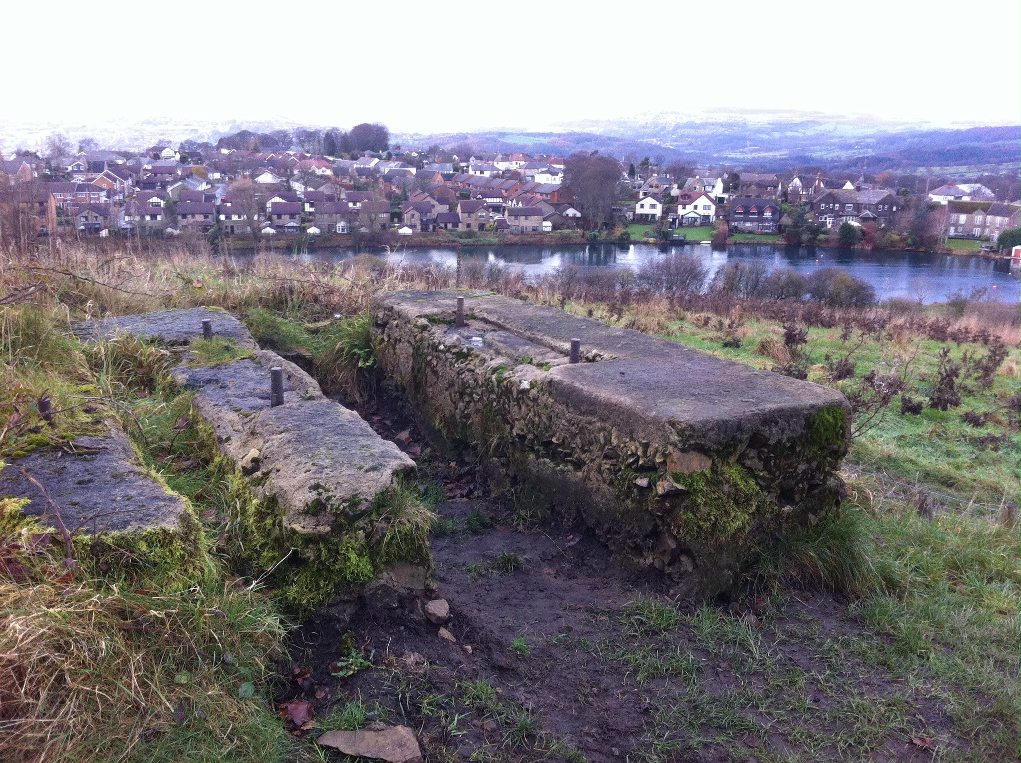 photo of foundations